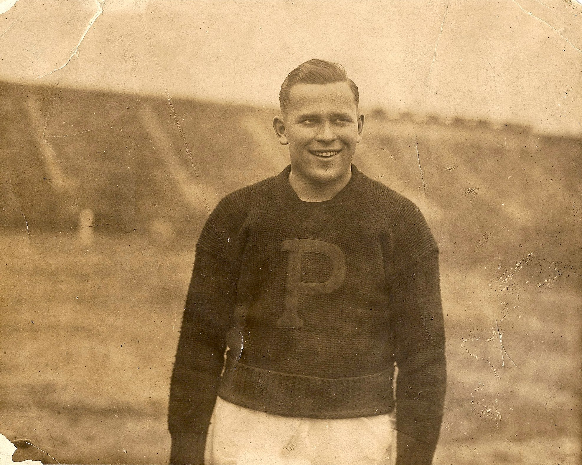 John C. Thurman while at University of Pennsylvania, circa 1922